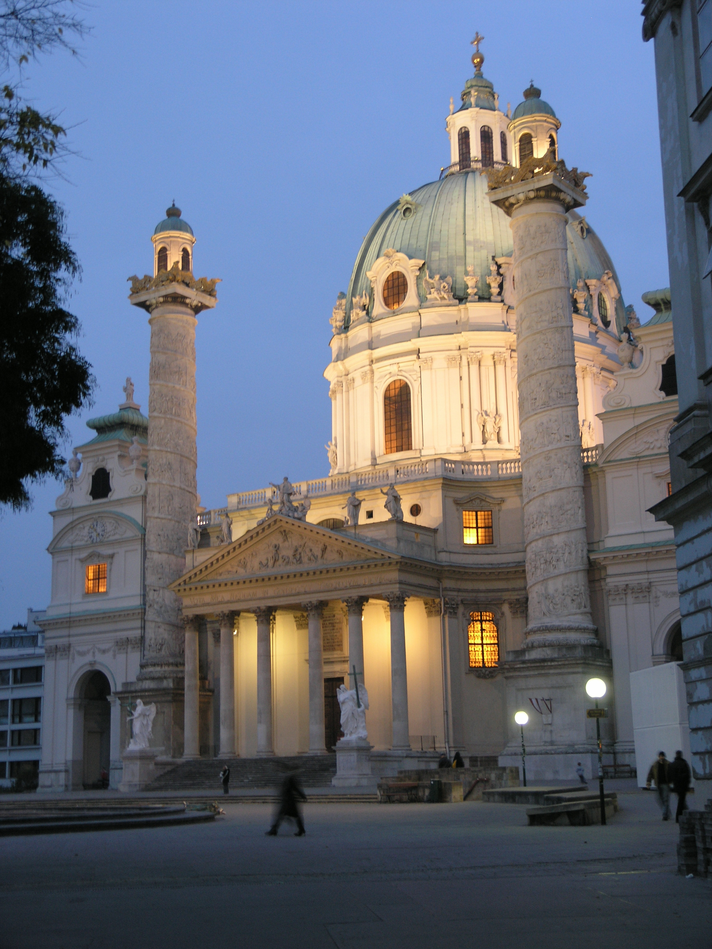 Vienna "Karls" church